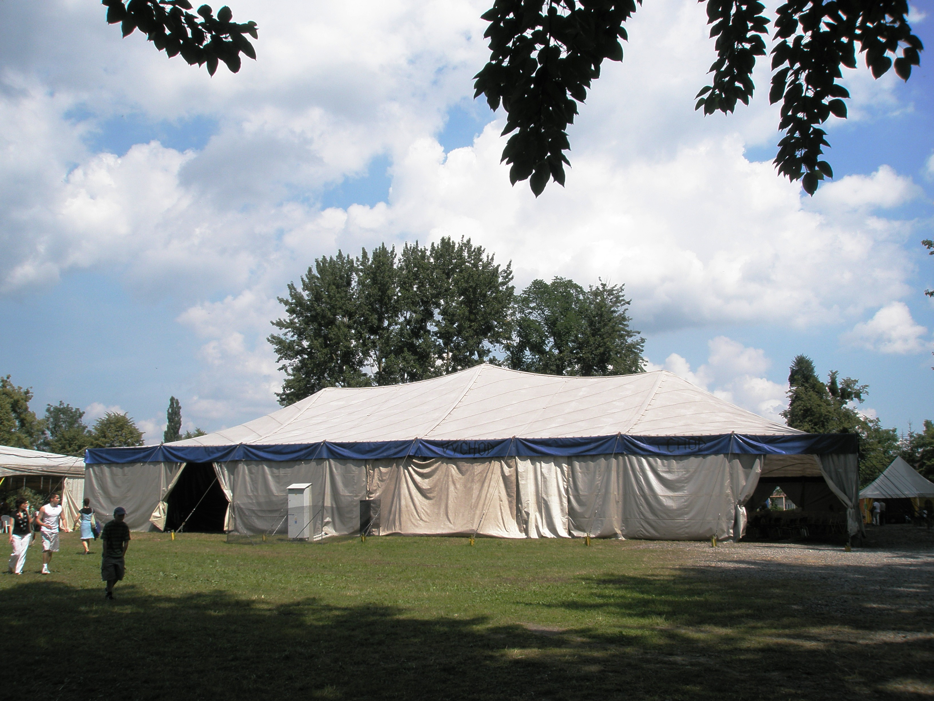 Lutheran evangelisation camp in Dzięgielów (Poland). The main tent.